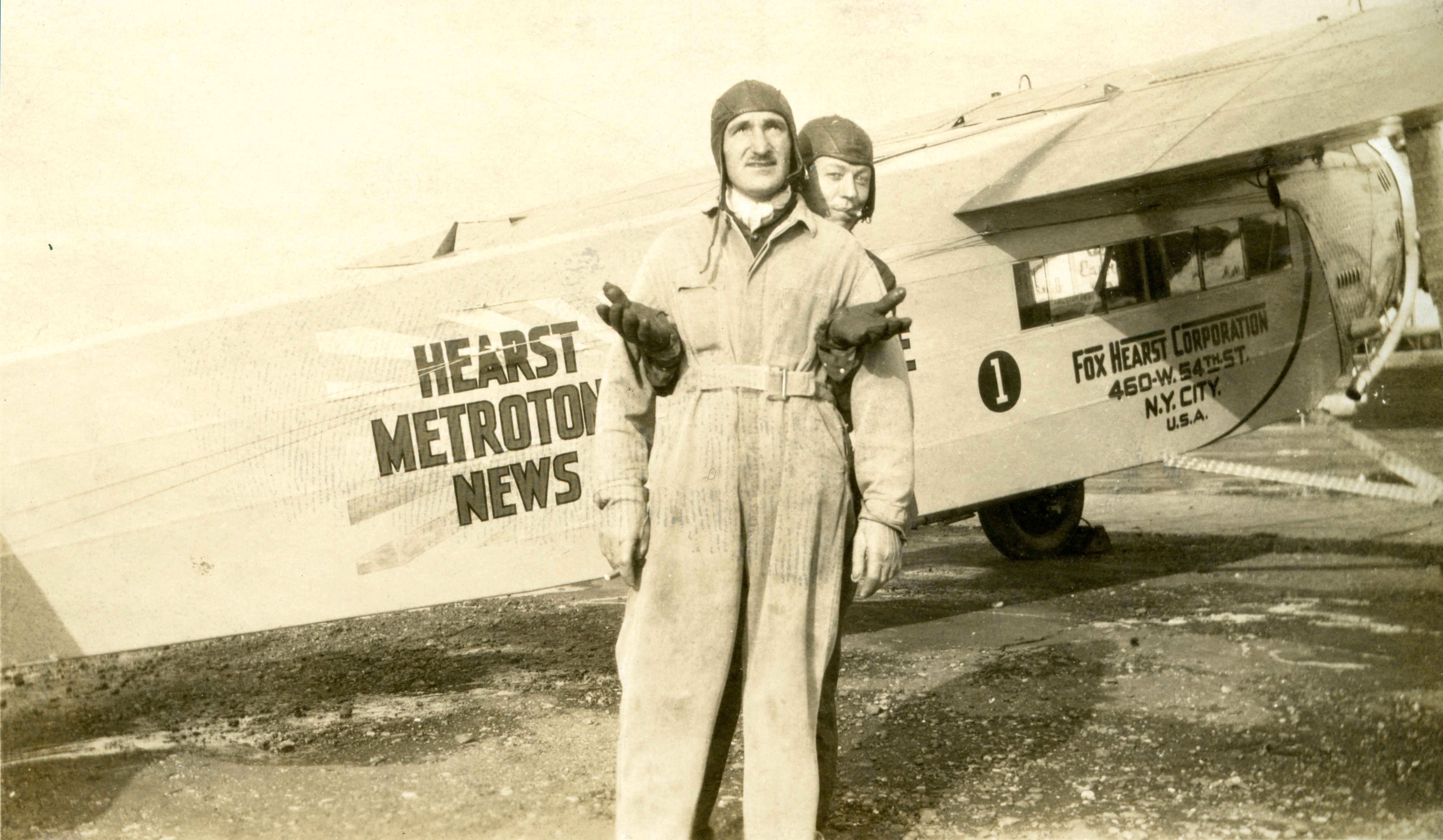 Friend and Armand Lizotte in front of Hearst Metrotone News airplane